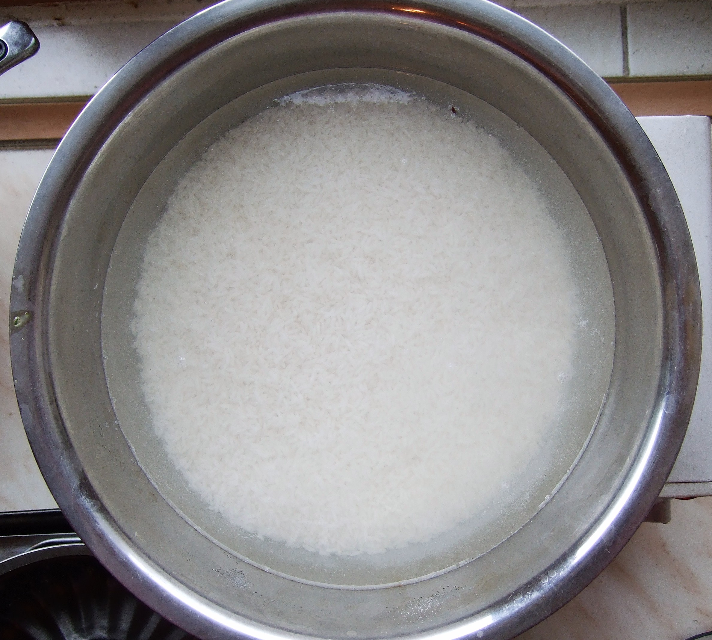 Persian rice soaked before cooking